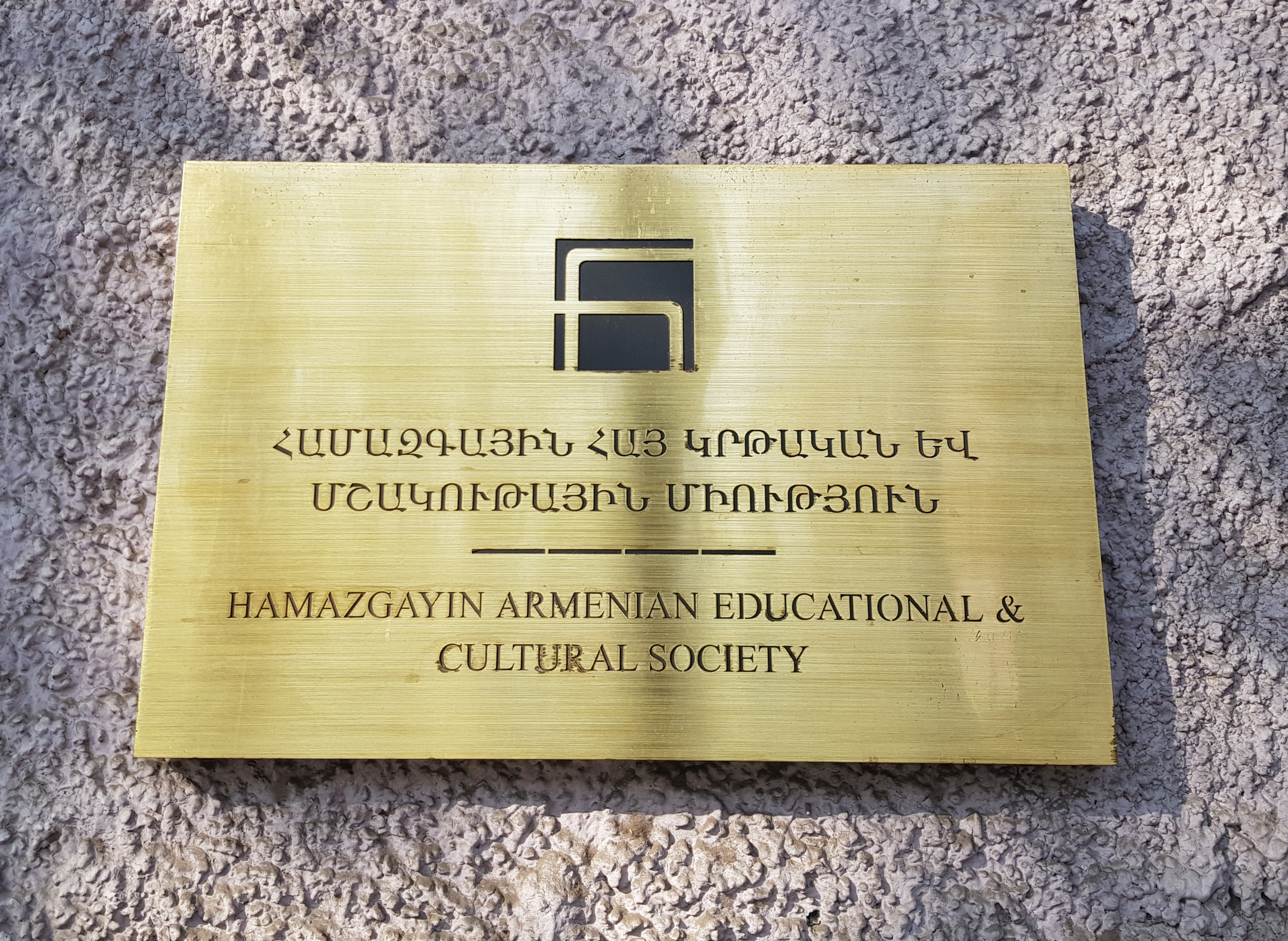 Hamazgayin Armenian Cultural and Educational Society Plaque